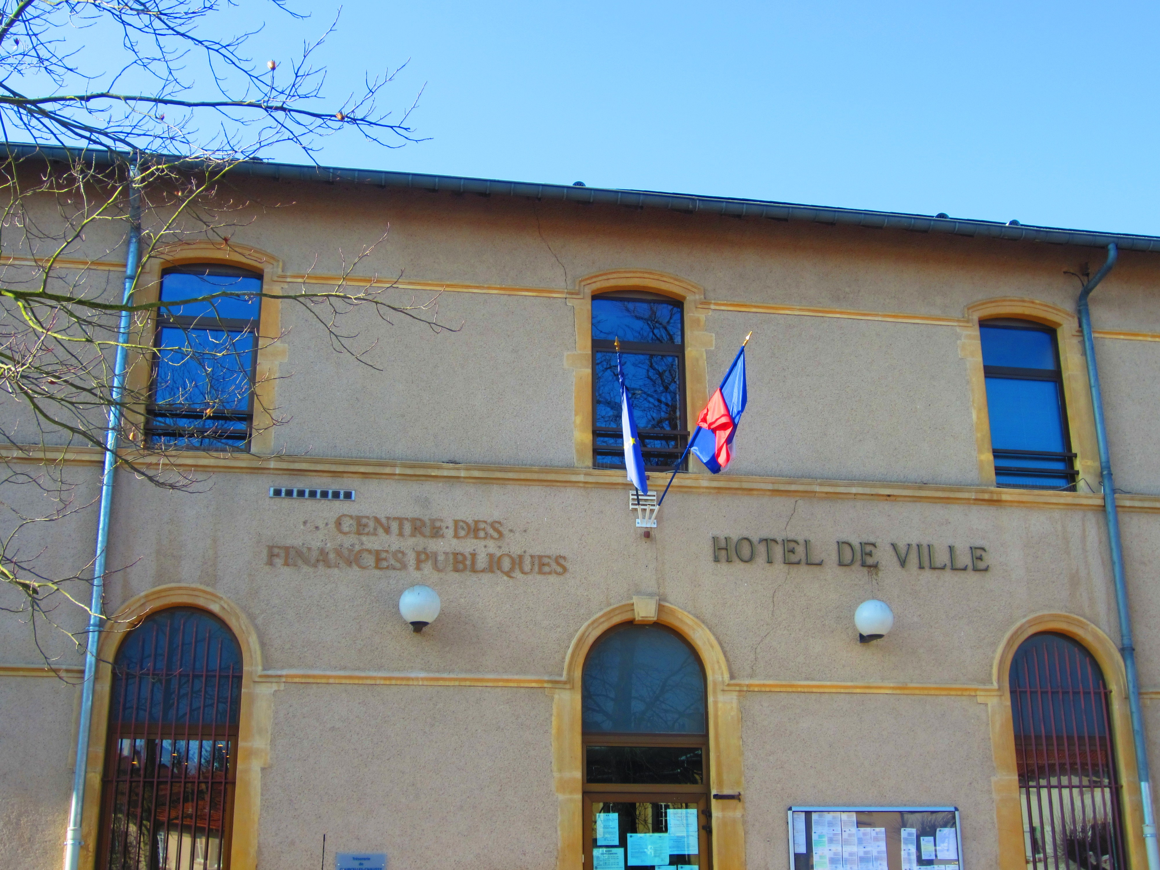 Mairie Courcelles Chaussy town council